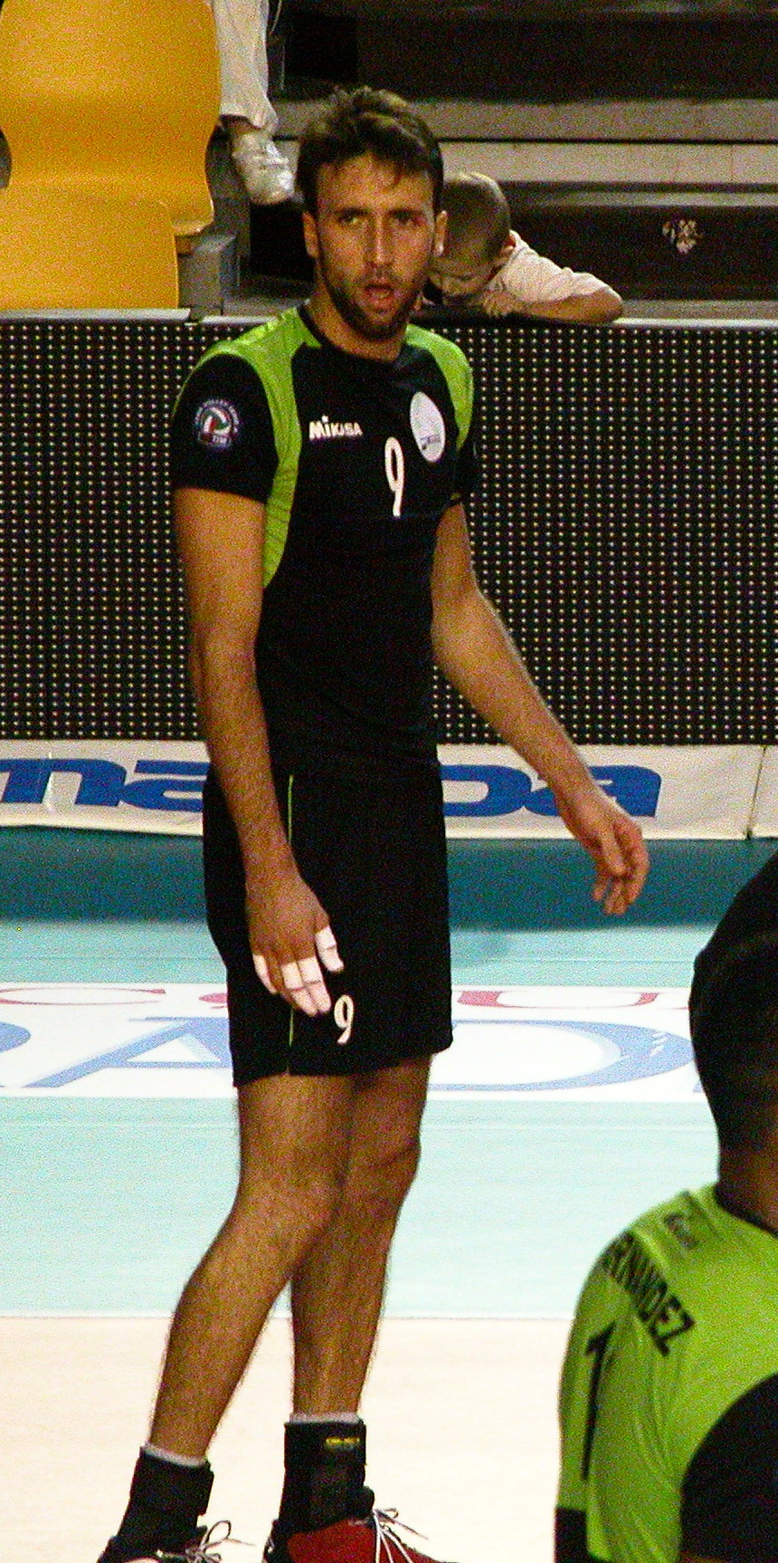 Italian volleyball player Marco Molteni after his first game with the M. Roma Volley team